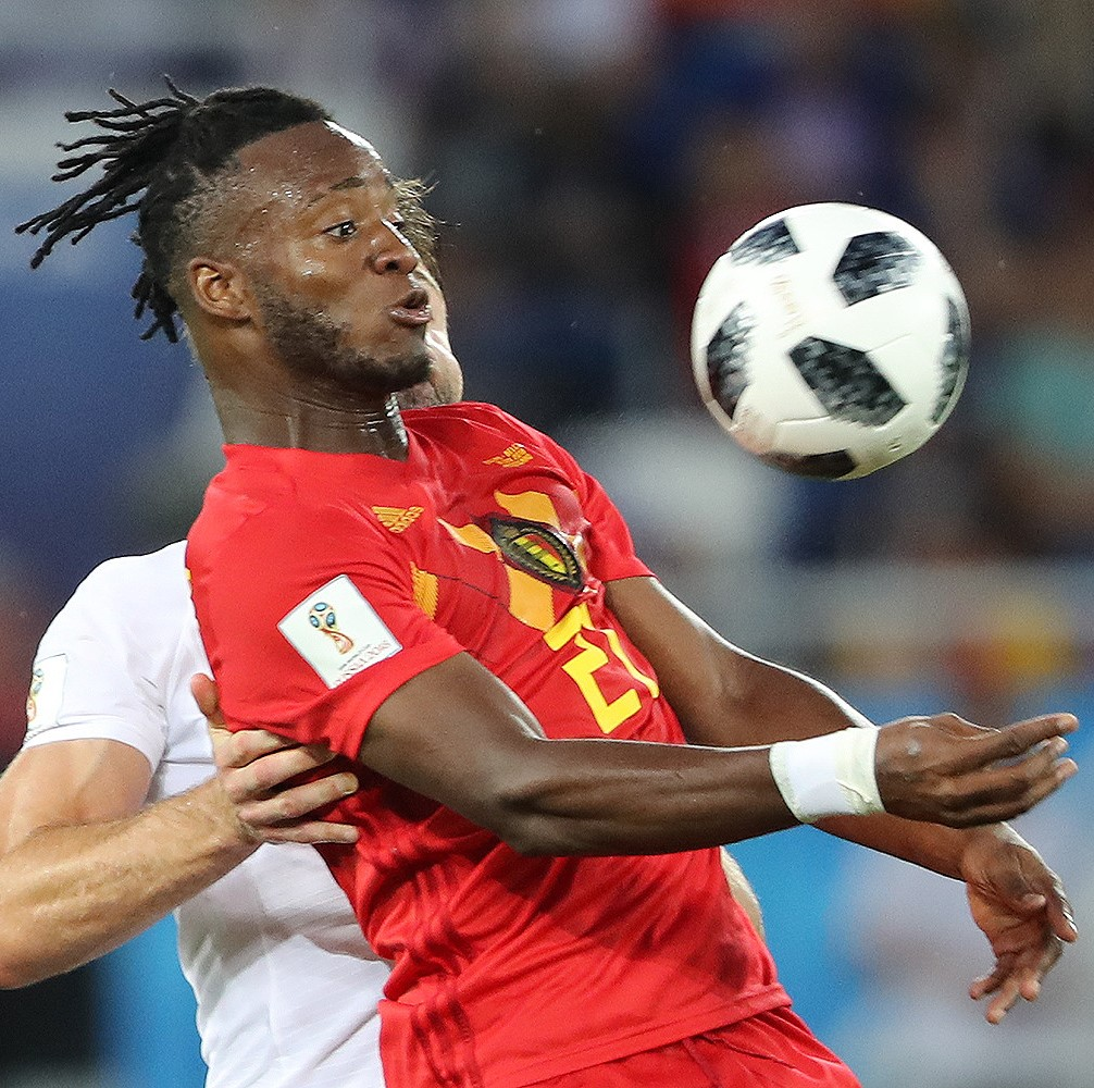 Michy Batshuayi